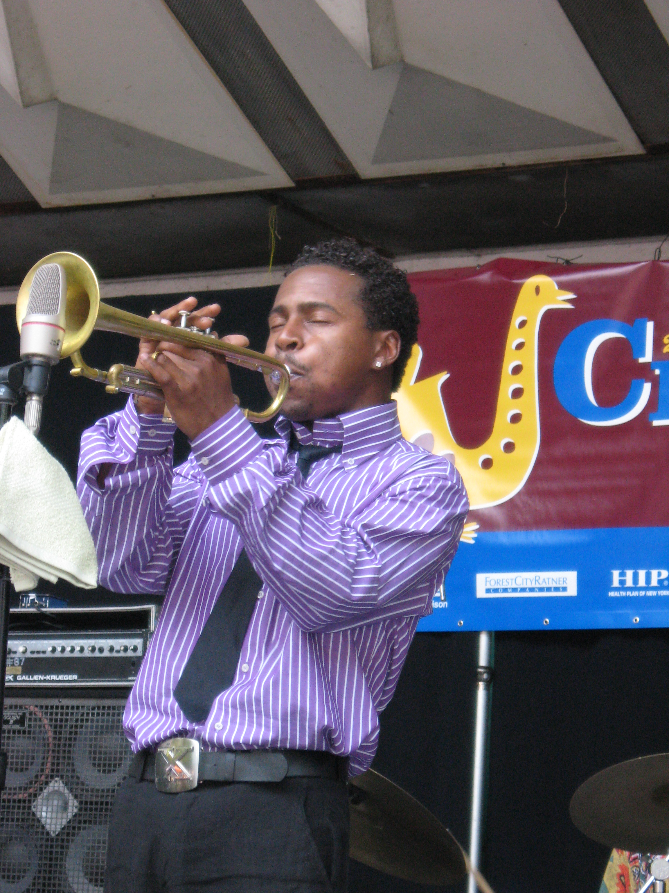 Roy Hargrove